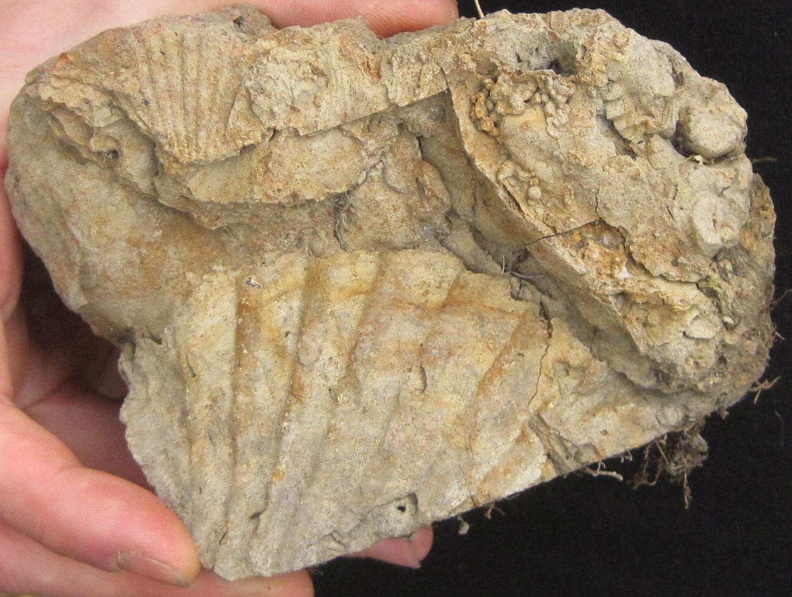 Oysters in a sandstone bed of the overall organic shale of the Chipaque Formation, Chipaque, Cundinamarca, Colombia